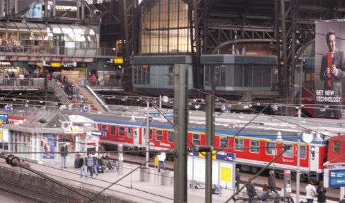 S.H. Express train, at the train station.